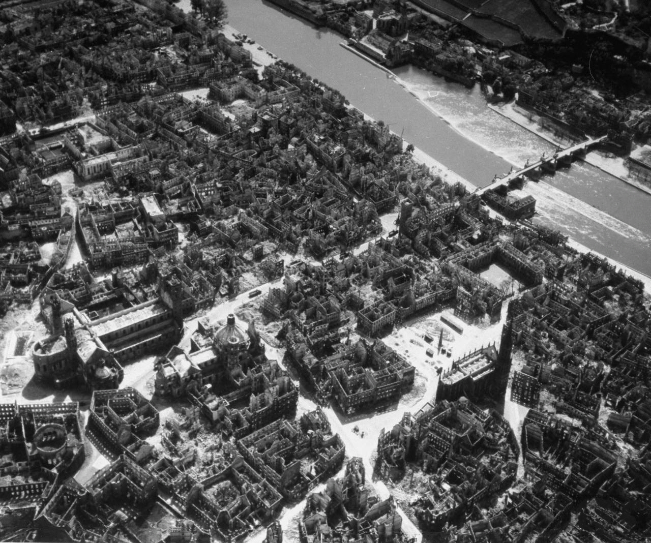 Aerial photo of the inner city of the destroyed Würzburg in autumn 1945, taken from the north